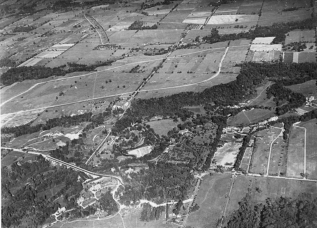 Aerial of Bayview and Lawrence Avenues from the southwest, Toronto, Canada